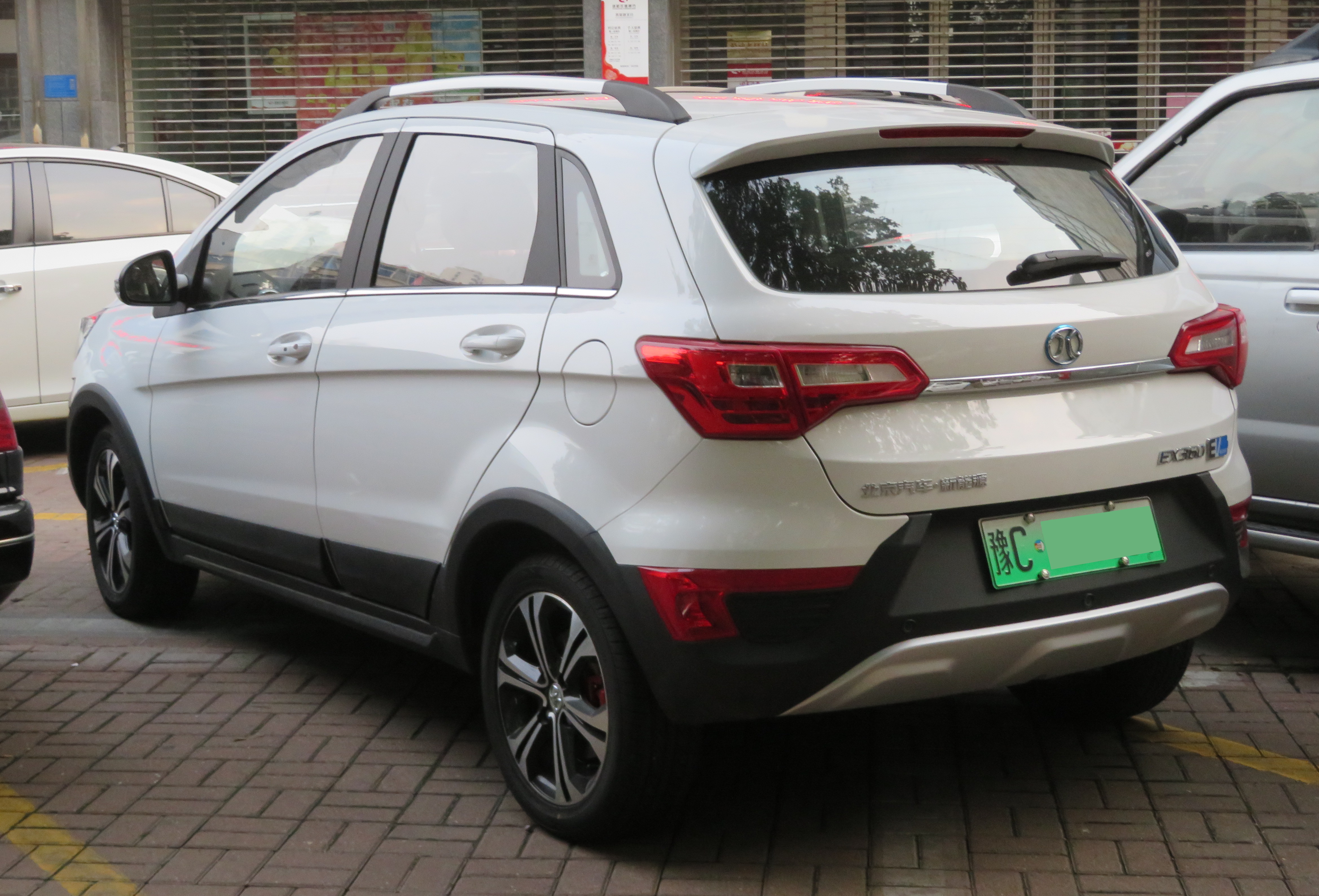 Photographed in Luoyang, Henan province, China